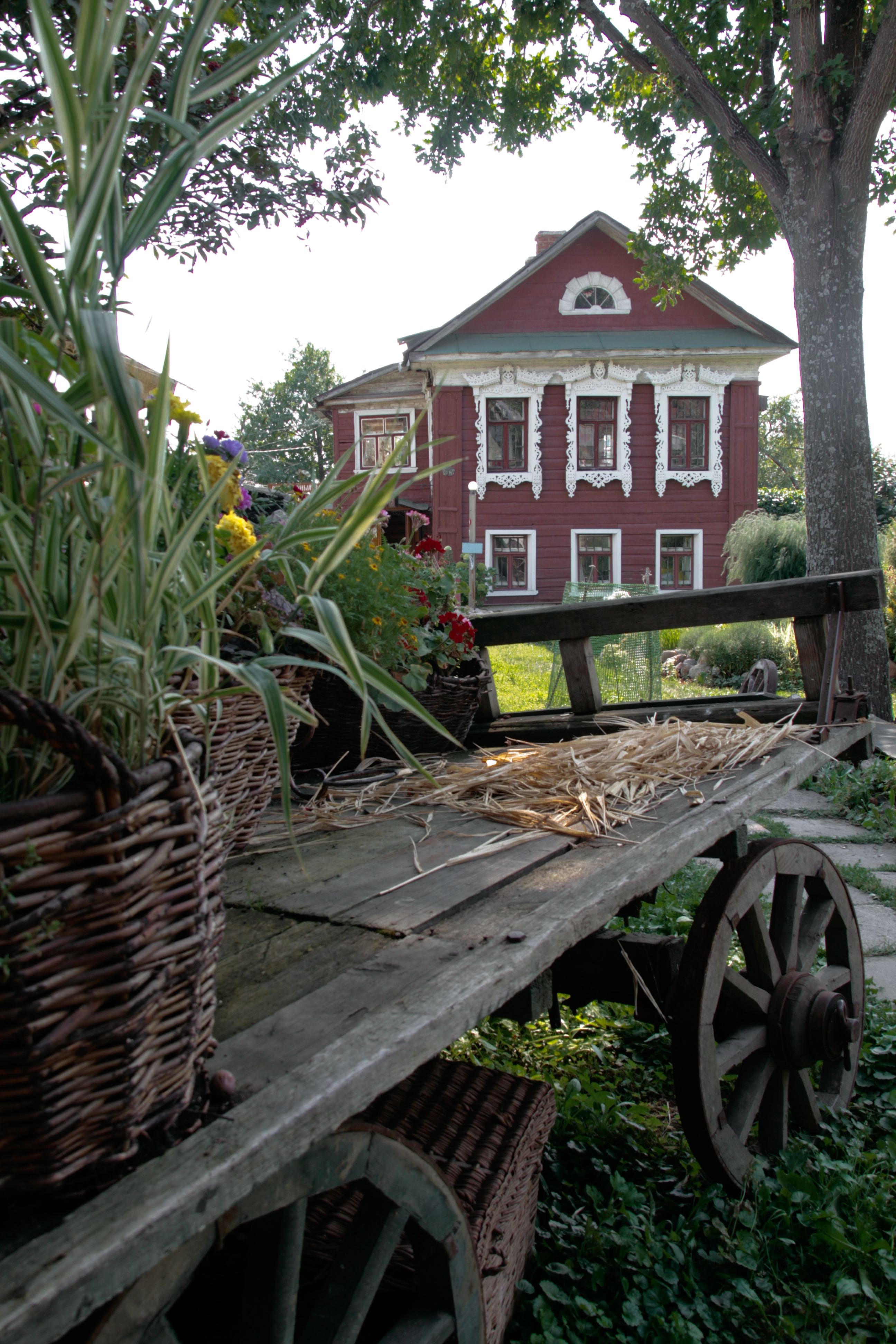 Khors Art Gallery of Mikhail Selishchev, Rostov Velikiy